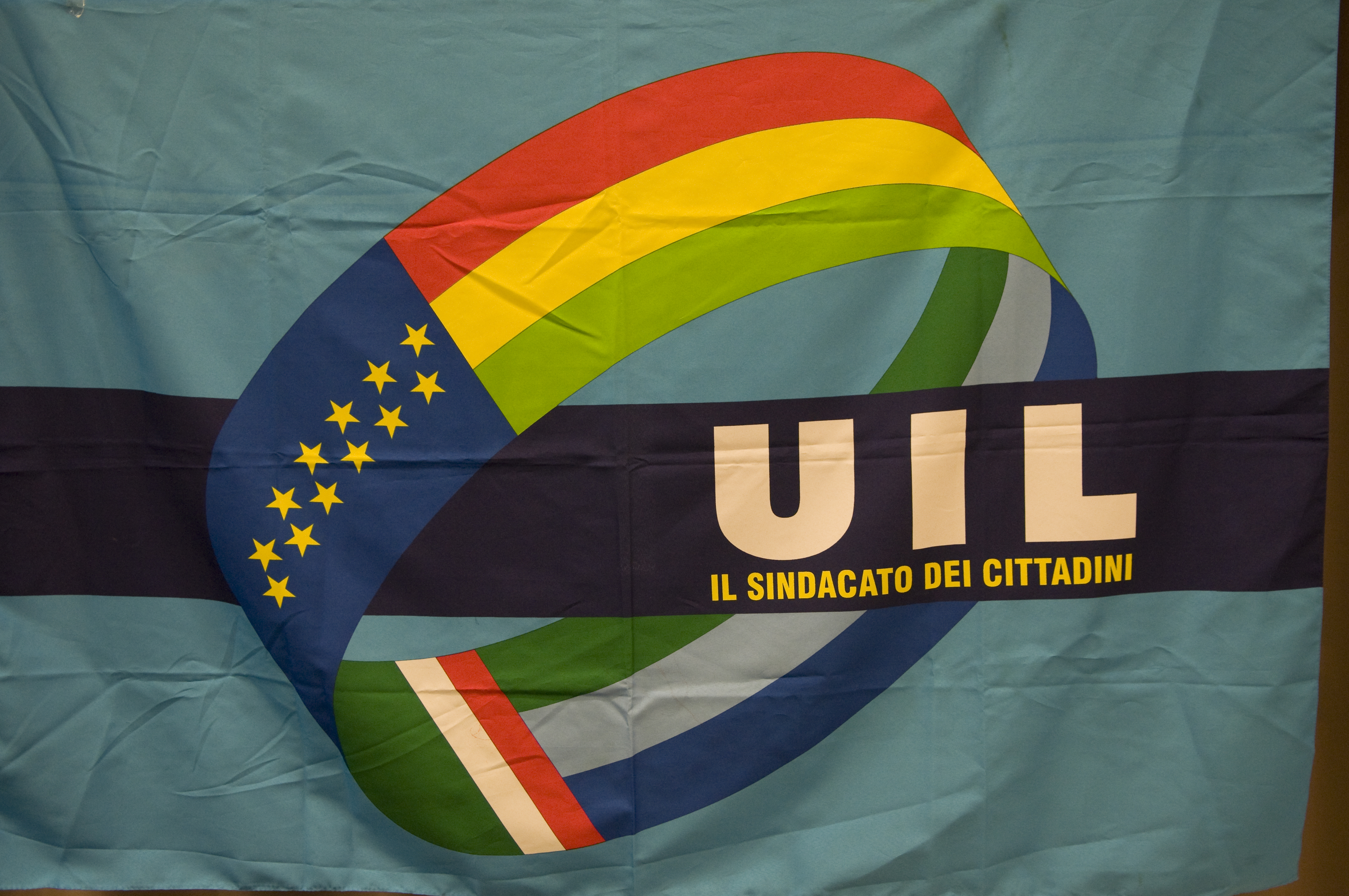 The flag of the UIL - Unione Italiana del Lavoro (Italian Labour Union).